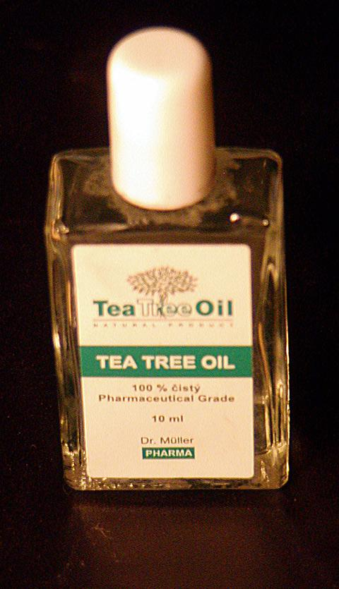 little bottle of Tea Tree Oil